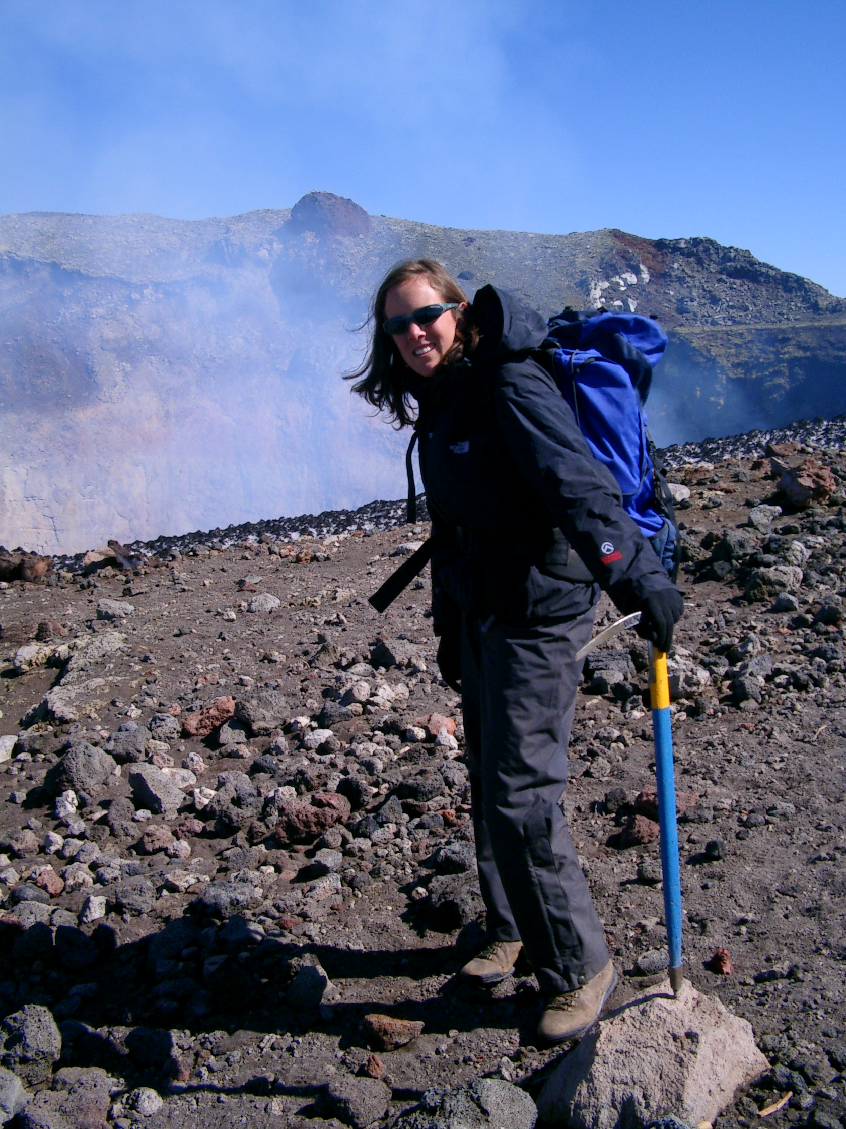 Volcanologist Tamsin Mather standing by the fuming vent of Villarrica volcano, Pucon, Chile.